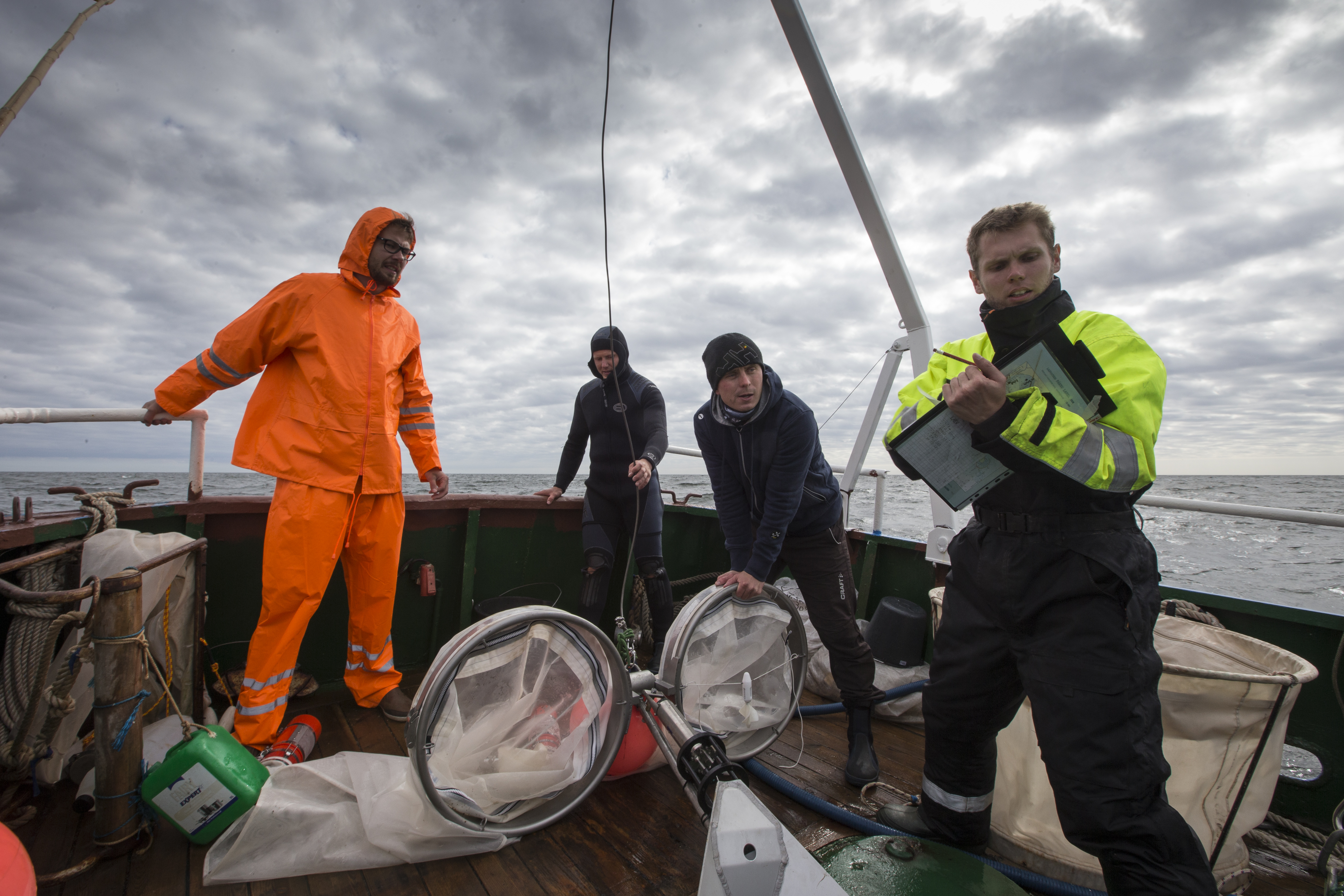 Scientists from Estonian Marine Institute (University of Tartu) on the board of research vessel "Vilma" making last preparations to launch a new controllable monitoring seine. The seine was acquired to monitor a rare type of Baltic herring that spawns in autumn and to do it in the Gulf of Livonia.